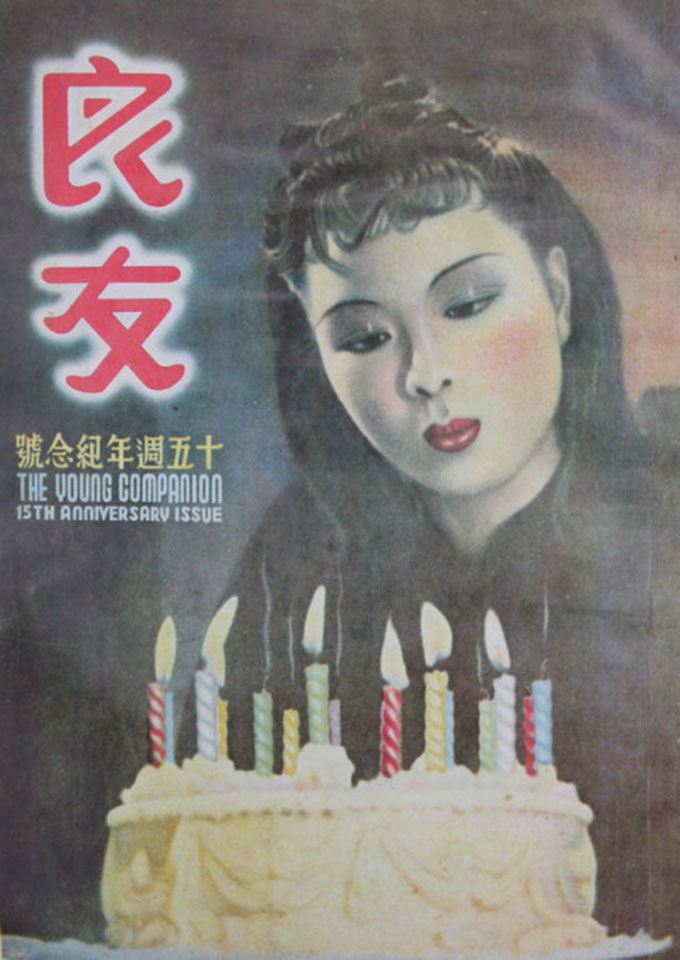 Cover of Liangyou magazine #162, 1941, featuring Murong Yuer (慕容婉儿). This was also the 15th anniversary issue.